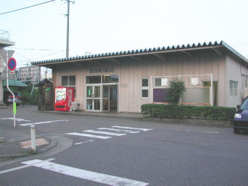 Kamo Station west exit, Kamo, Niigata, Japan